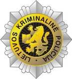 Emblem of Lithuanias criminal police bureau